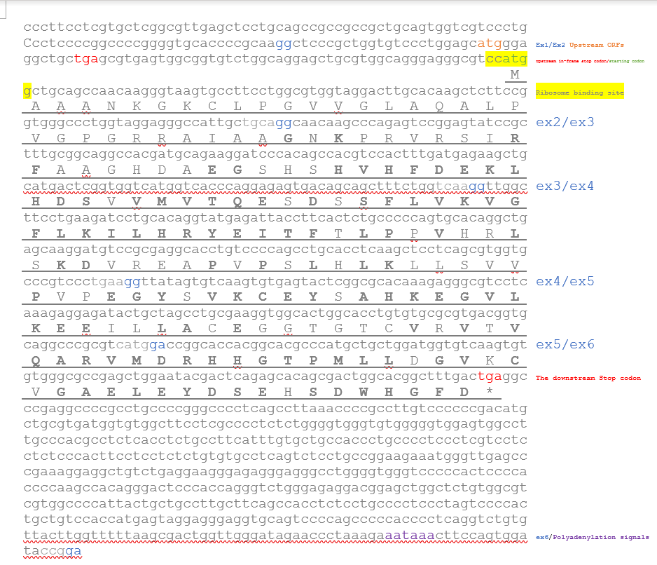 Conceptional translation of C20orf27